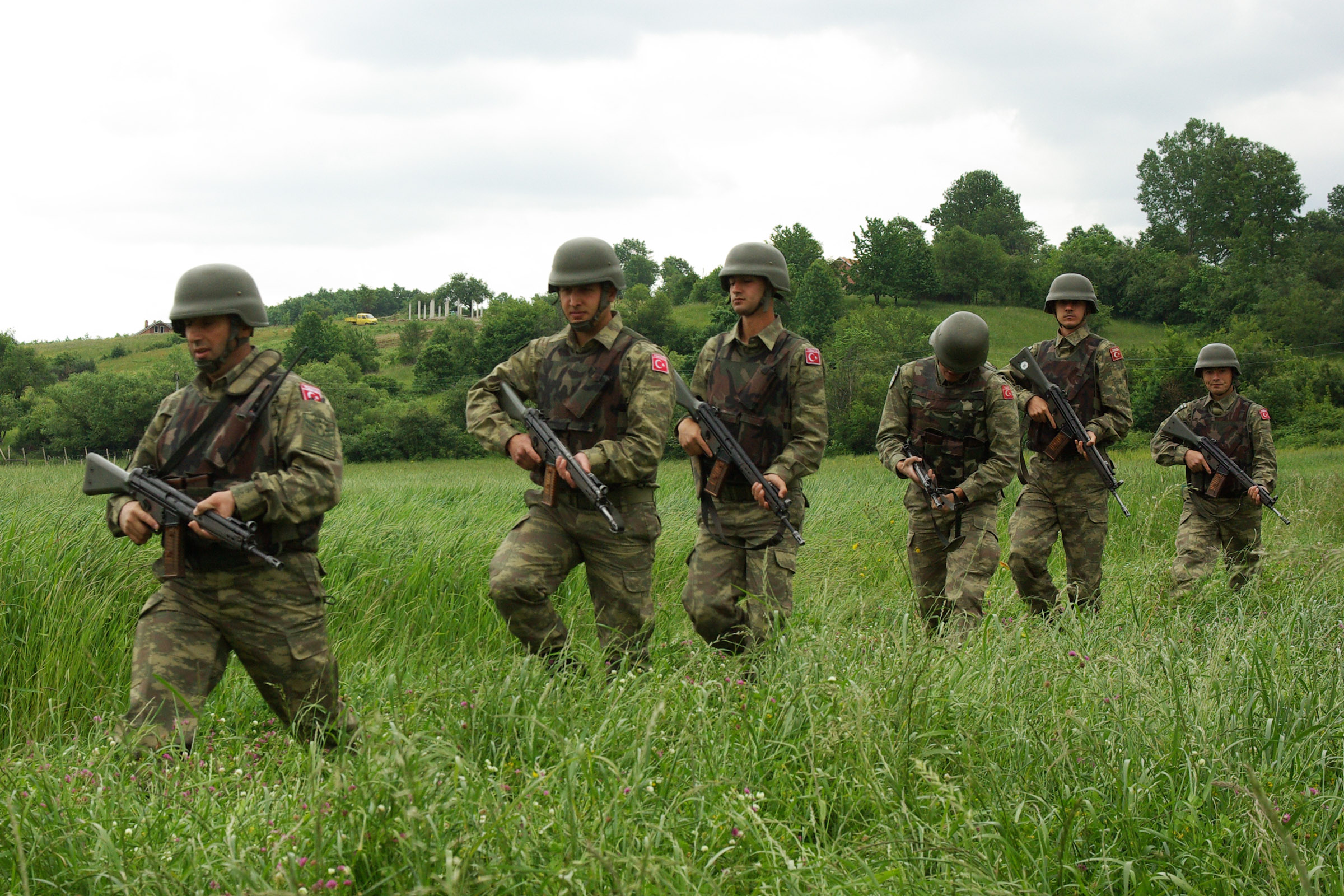 Turkish KFOR soldiers demonstrate quick reaction skills